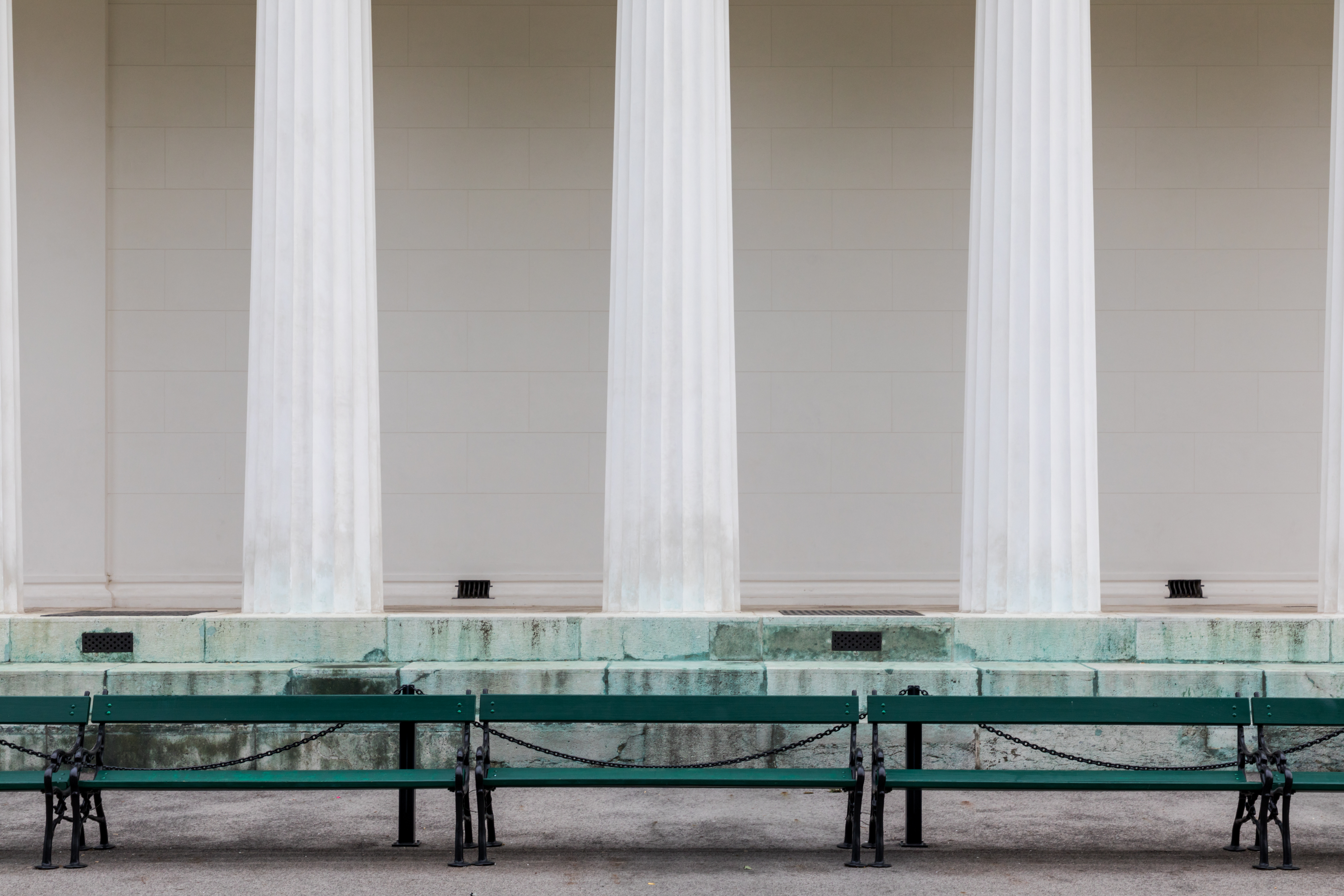 Theseustempel, Volksgarten, Vienna, Austria